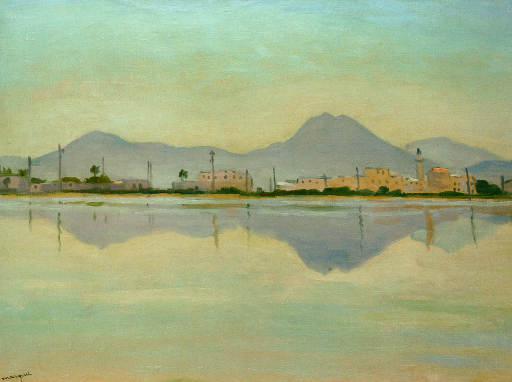 Le canal de Tunis Albert Marquet